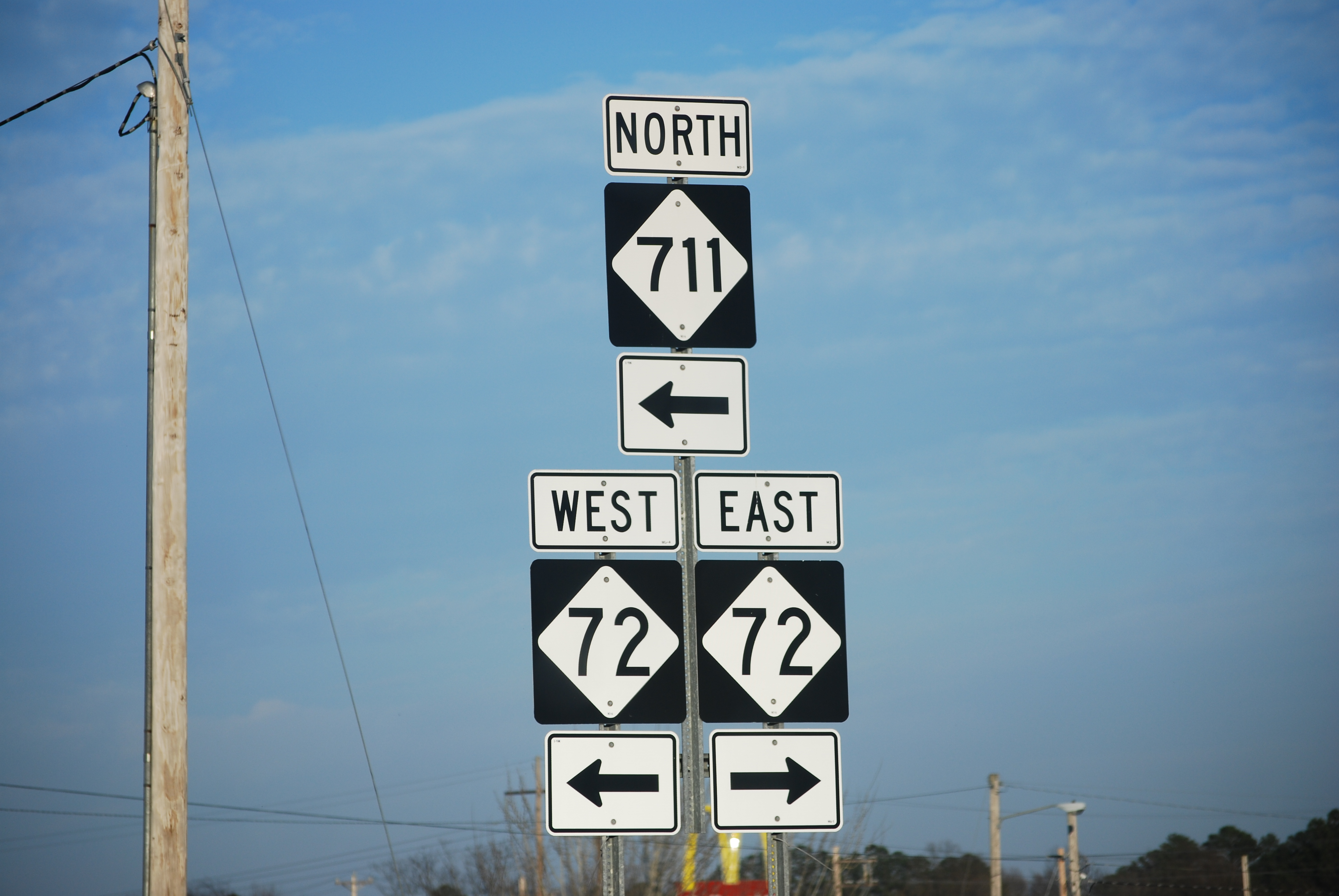 Signage for North Carolina Highways 711 and 72